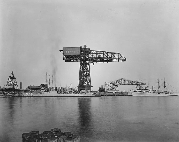 Ships at the Philadelphia Naval Shipyard on 31 May 1923. In the center of the photo is the "League Island Crane" built 1919 by the McMyler-Interstate Company in Bedford, Ohio, it was the world's largest crane at the time of its construction. The smaller crane to the right is the Ex-USS Kearsarge (BB-5), which was converted into Crane Ship No. 1 in 1920. In front of the crane is the Clemson-class destroyer, USS Lamson (DD-328).